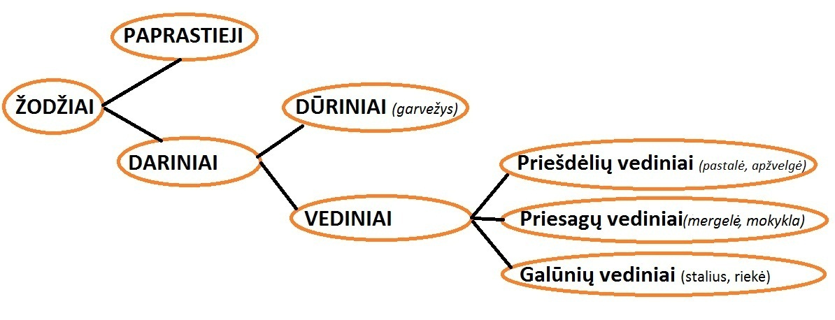 Lithuanian word formation